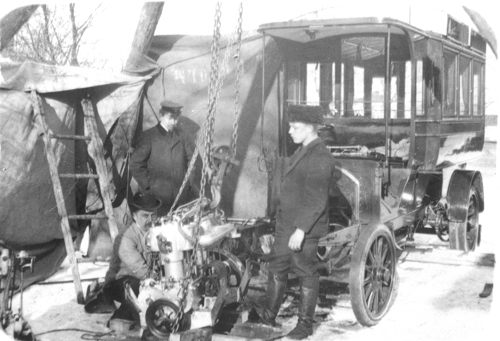 First omnibus in Finland